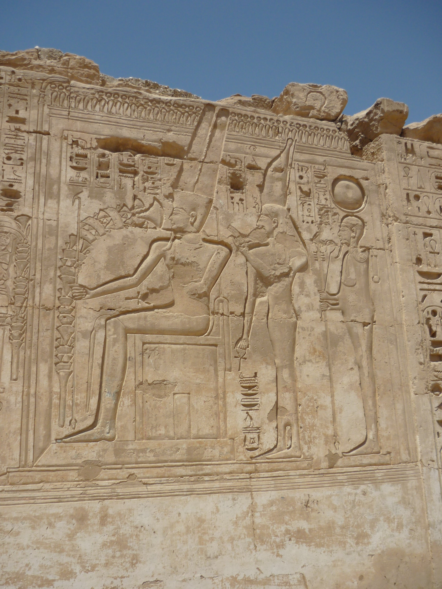 Wall relief of Amun-Ra, Mut and Khonsu (left to right), mortuary temple of Ramses III, Medinet Habu, Theban Necropolis, Egypt